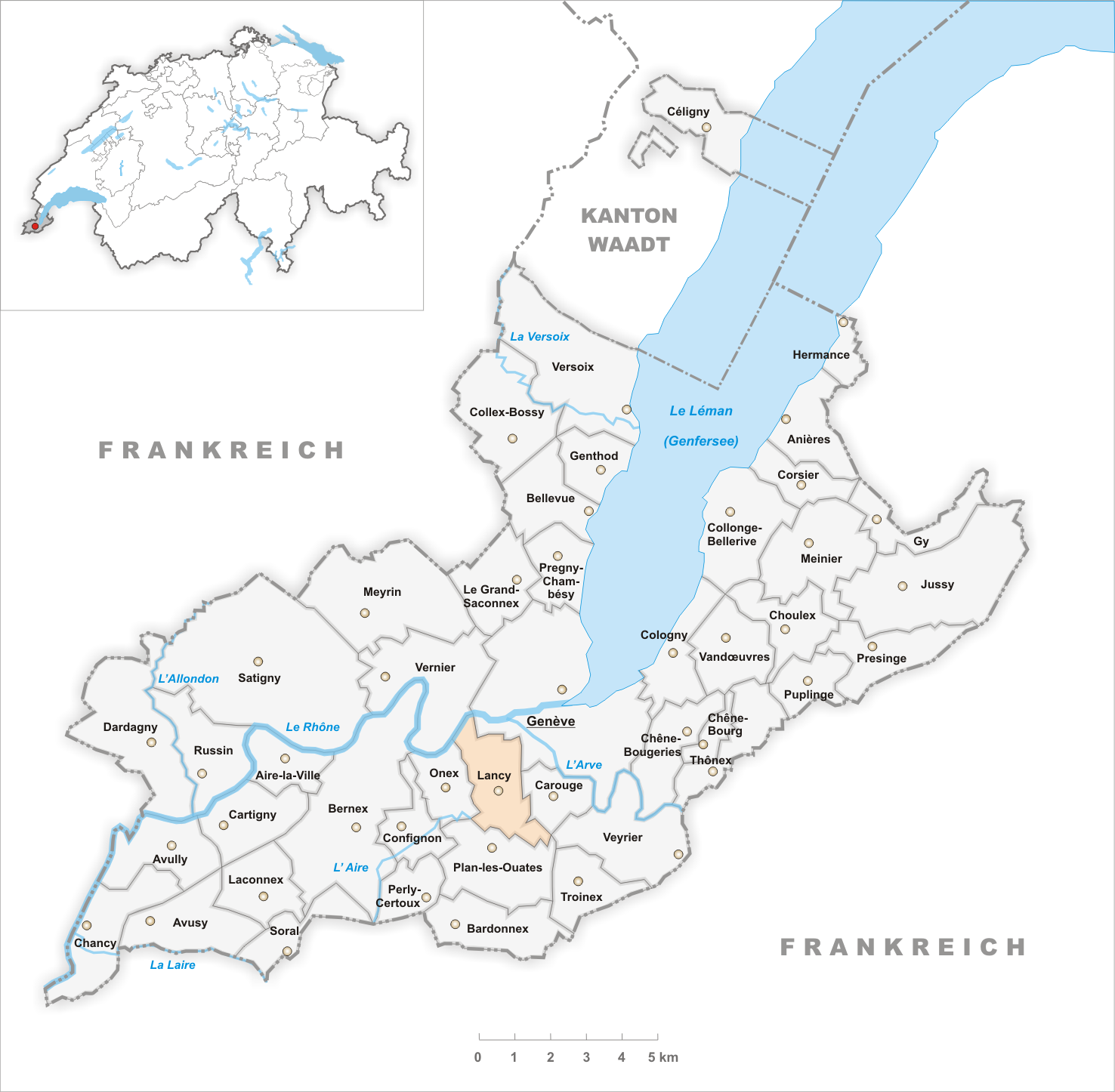 Municipality Lancy